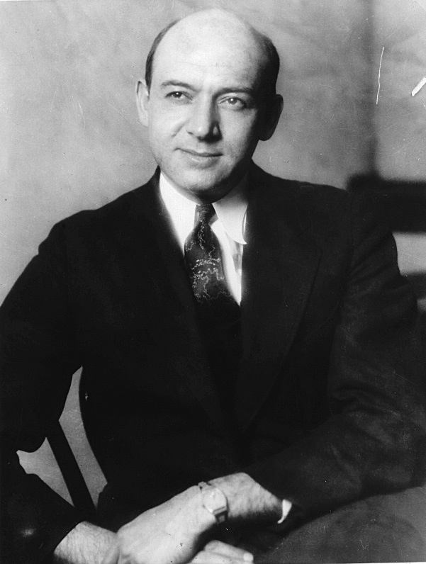 Artist Charles Schmidt, creator of Sgt. Pat of Radio Patrol comic strip.